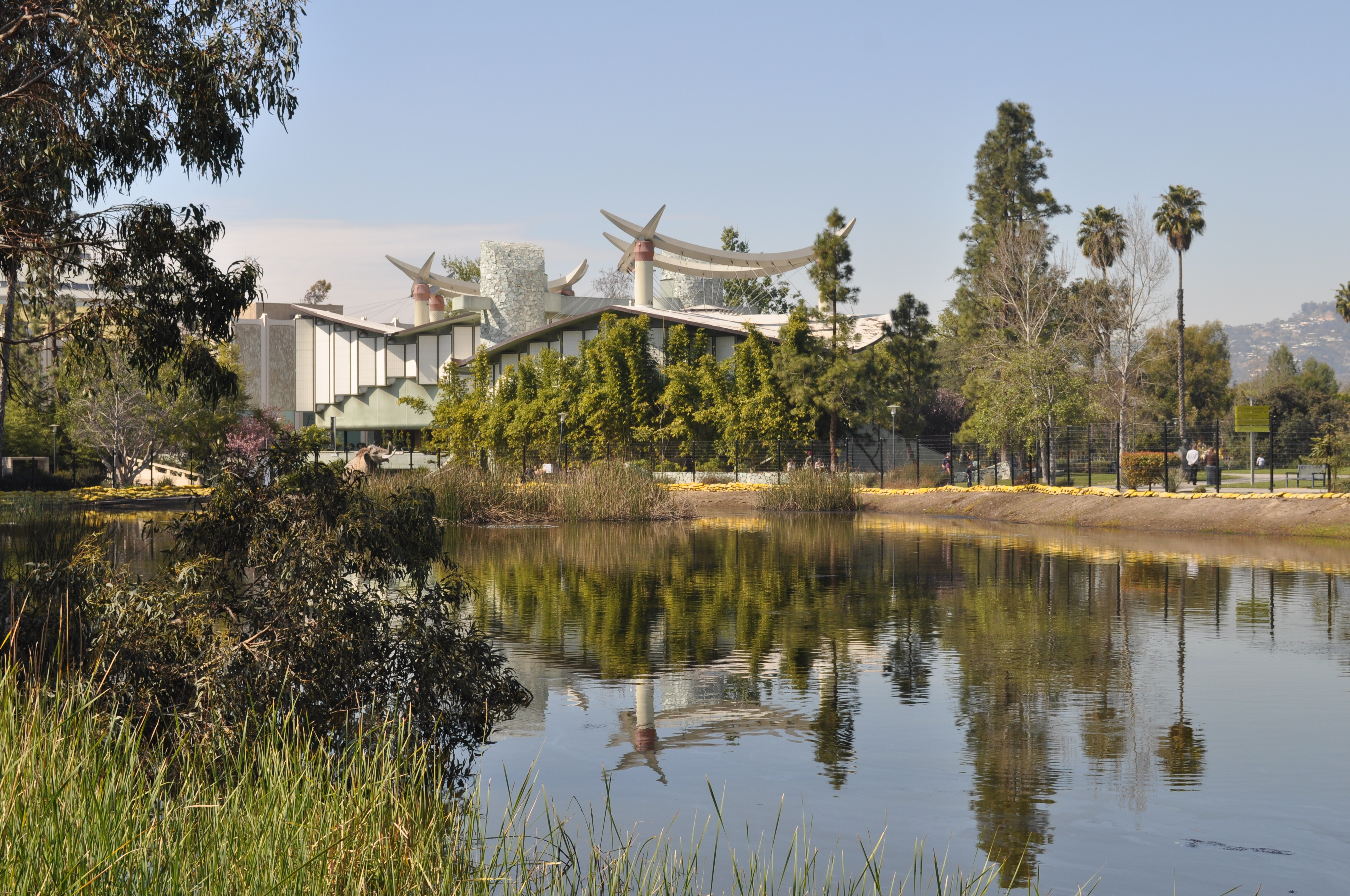 The La Brea Tar Pits (foreground), with the Pavilion for Japanese Art beyond — in Hancock Park (city park), Miracle Mile district, Los Angeles, California. The Pavilion, designed by architect Bruce Goff, is on the Los Angeles County Museum of Art (LACMA) campus.